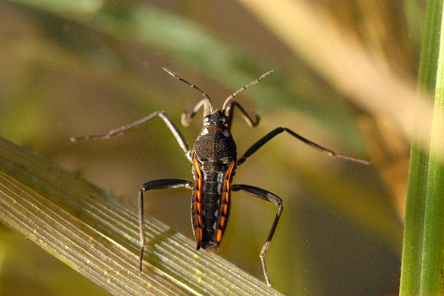 Velia caprai from Commanster, Belgian High Ardennes .